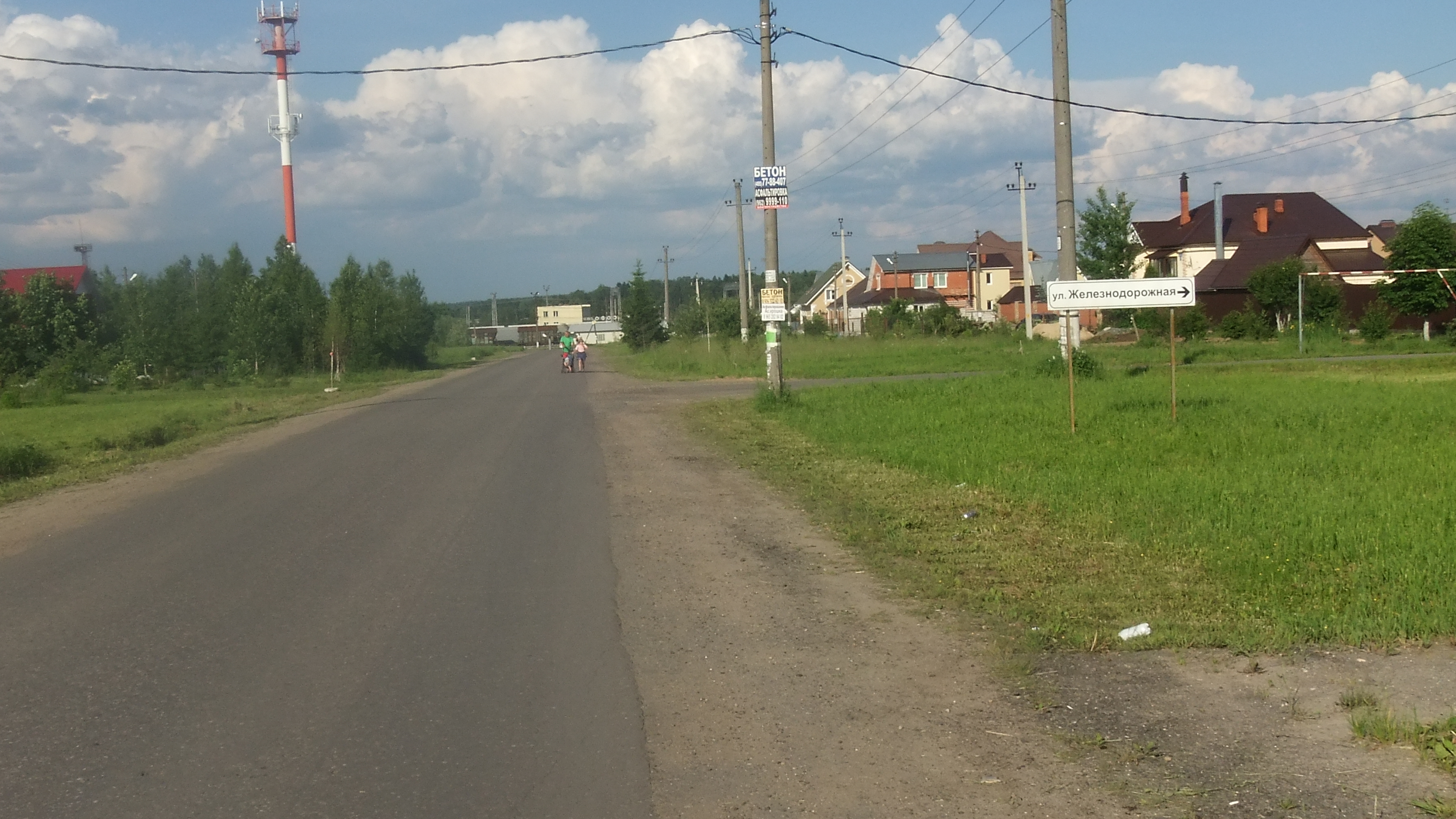 Posyolok Kievskiy. Tsentralnaya street near Bekasovo-Sortirovochnoe platform. Turn to Zheleznodorozhnaya street.